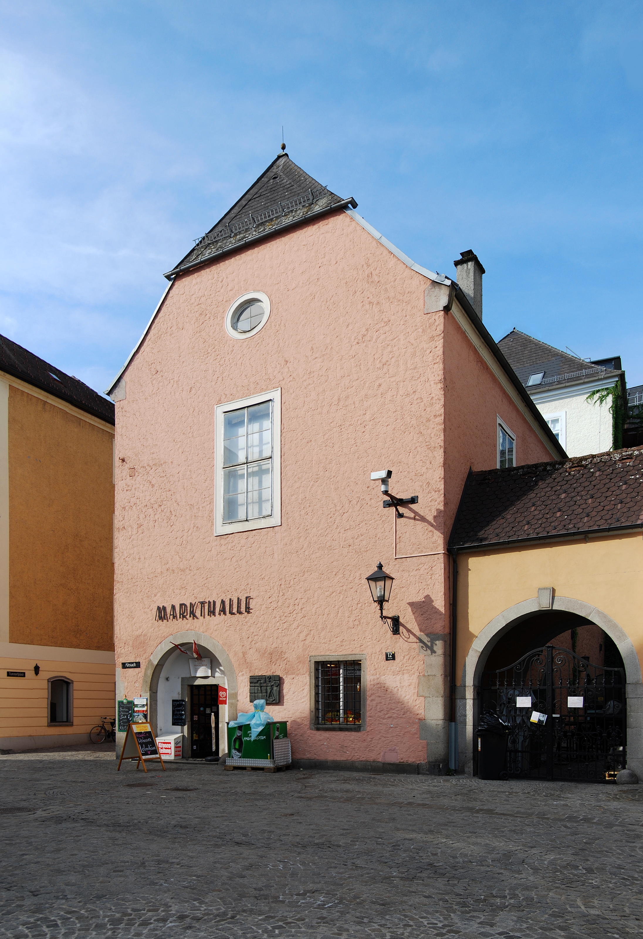 The market hall of Linz, Upper Austria.